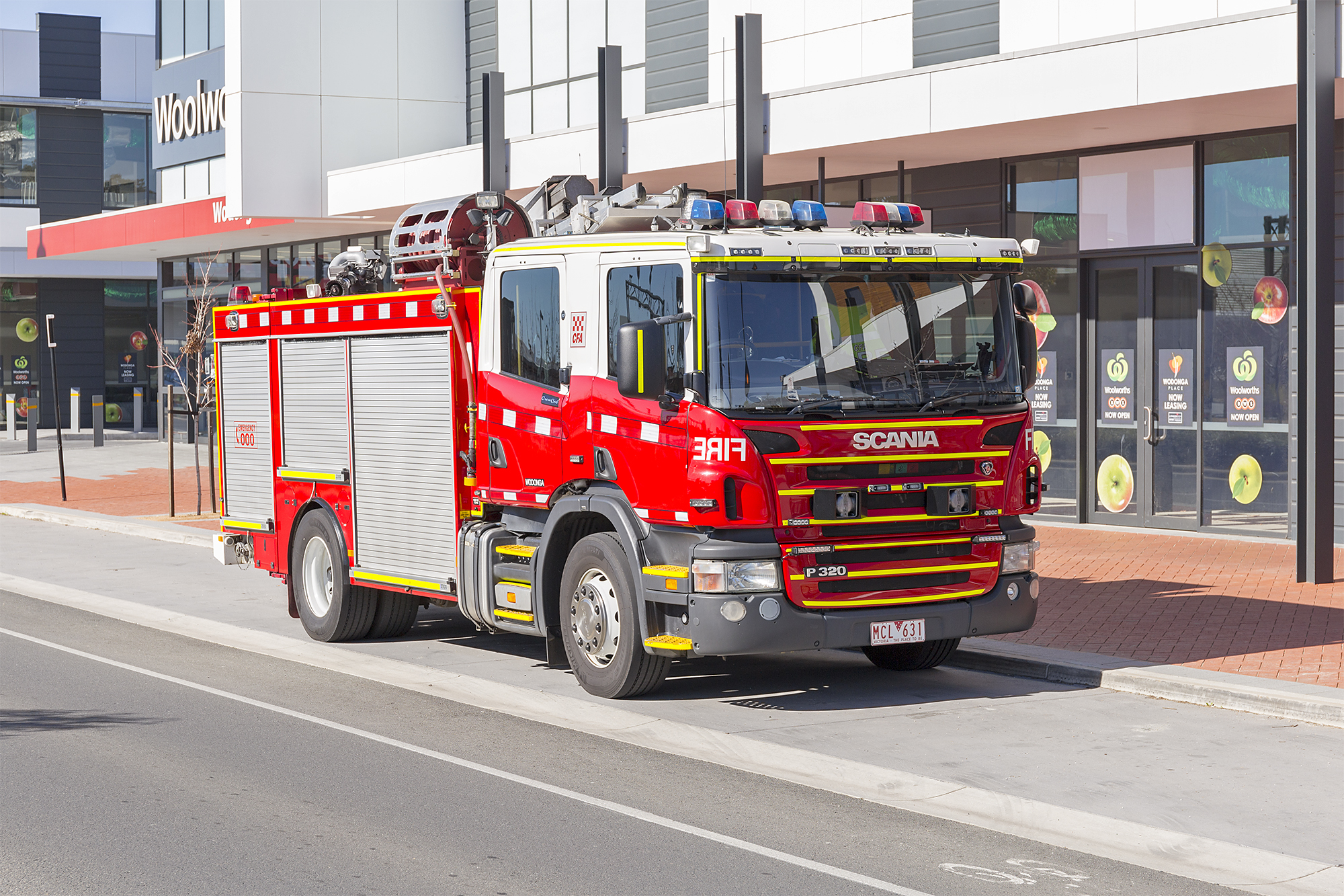 Wodonga CFA Type 4 Heavy Pumper on Elgin Boulevard